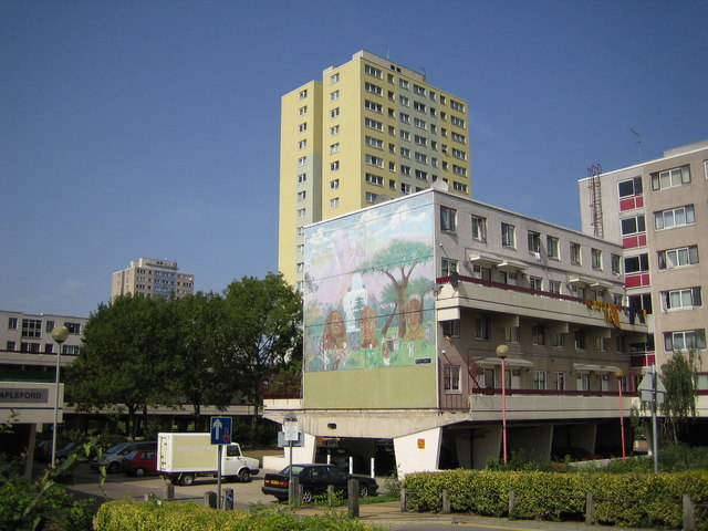 Tottenham: The Broadwater Farm Estate, N17. The estate was built between 1967 and 1973 in a style designed by Le Corbusier where no dwellings were at ground level because of the high water table of the Moselle River which is culverted under the estate. The warren of first floor concrete walkways offered opportunities for crime and anti-social behaviour and the consequent bad reputation of the estate long before the riot of 6 October 1985 which resulted in the murder of PC Keith Blakelock. Further information on the history of the estate can be found on Haringey Council's website here The mural is on the end wall of Rochford block and features Martin Luther King, Bob Marley, Mahatma Gandhi, and John Lennon. See 235530 for another photo of the estate in an adjacent grid square.